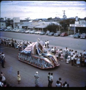 Unaipon 05:54, 21 October 2007 (UTC)